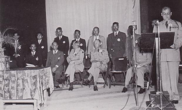 Appointment_Ceremony of Ryukyu Provisional Central Government